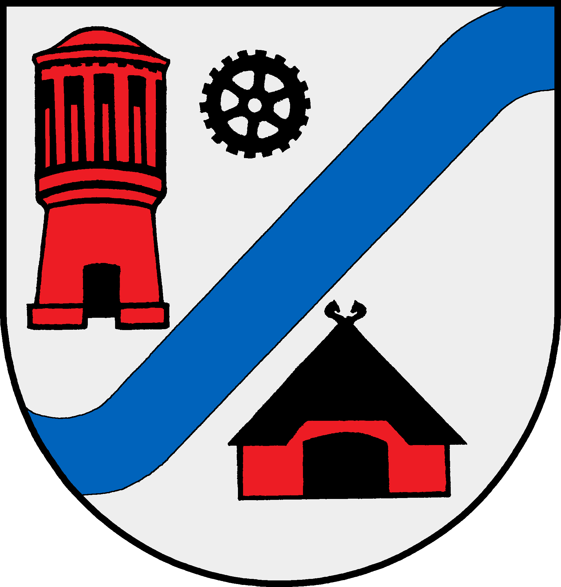 Coat of arms of the municipality Klein Pampau in Schleswig-Holstein, Germany.